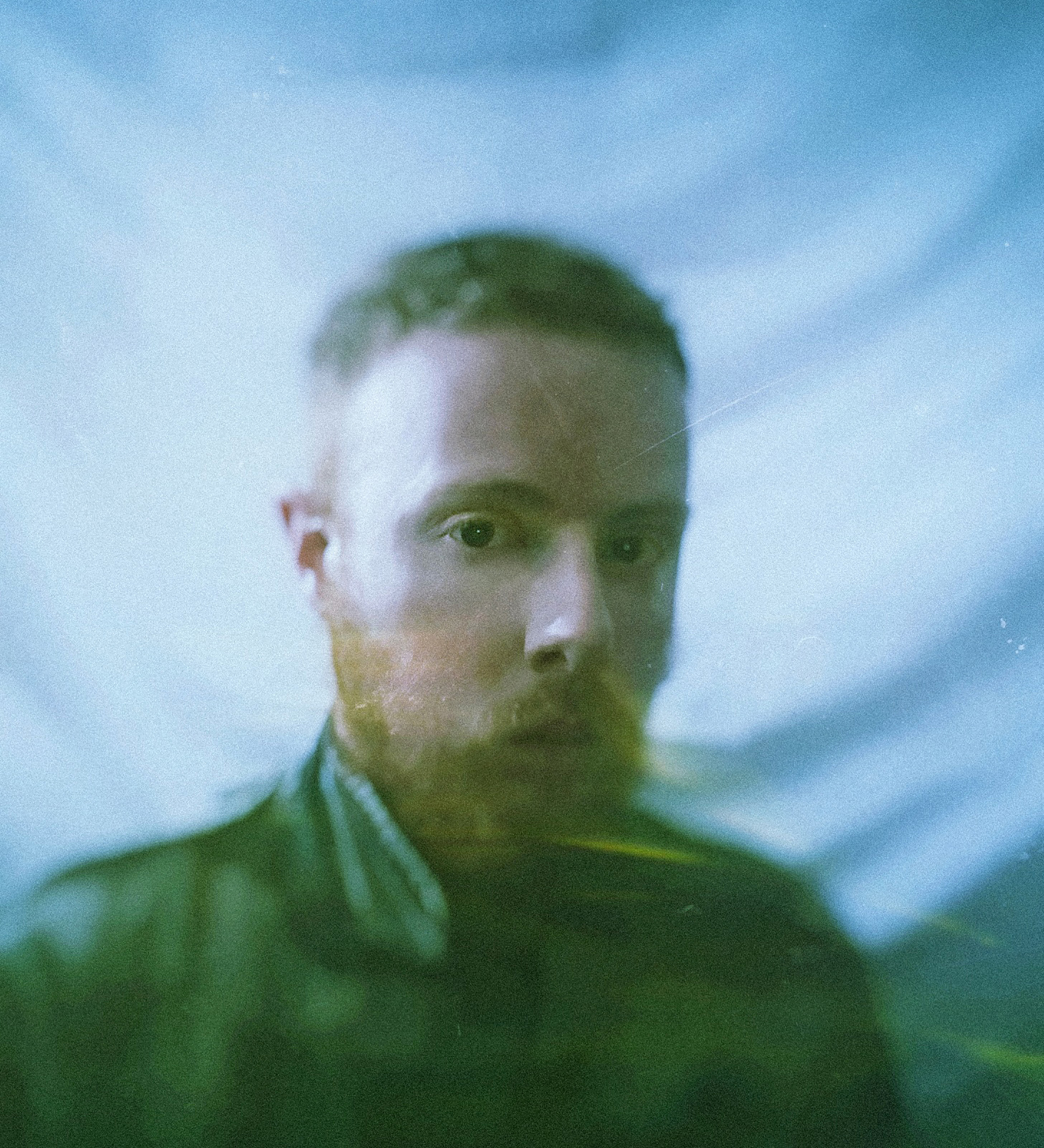 Forest Swords portrait